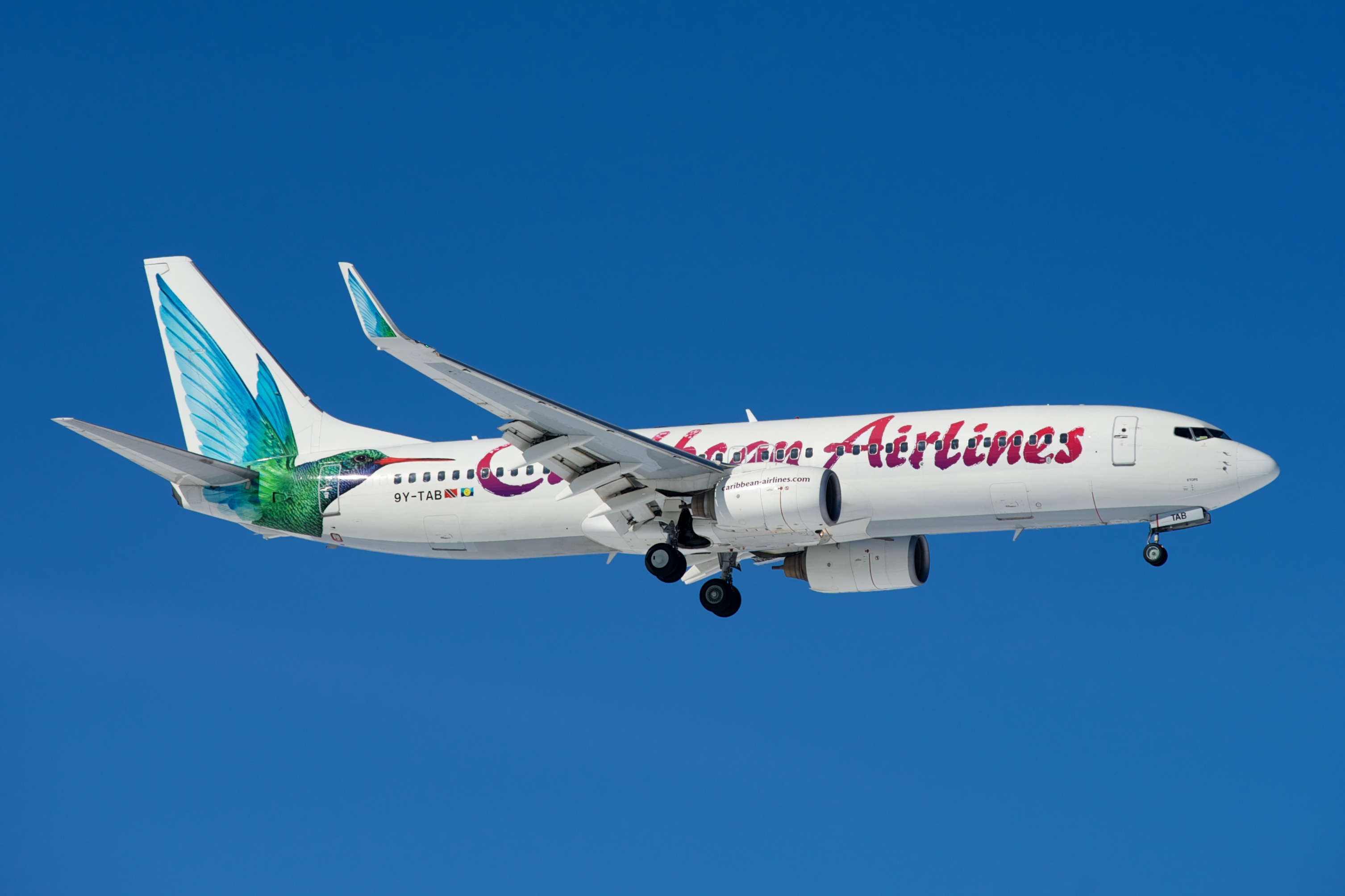 Arriving on a very bright and sunny YYZ morning